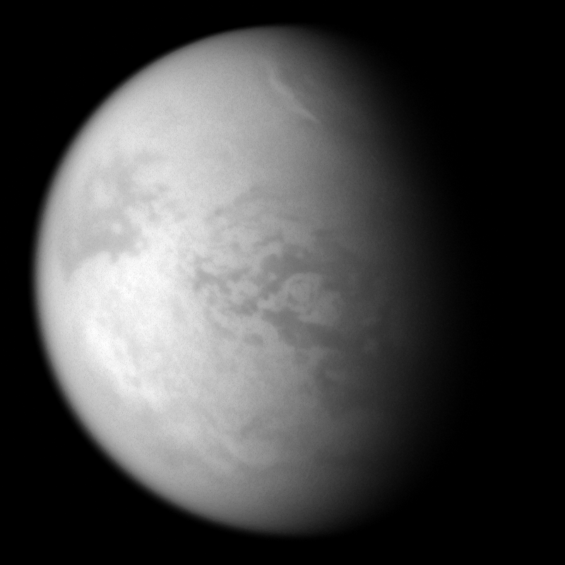 A bright streak of cloud graces the northern skies of Titan. This is the second time the Cassini spacecraft's imaging cameras have spotted clouds at 60 degrees north latitude on Titan—the previous occasion being the Feb. 2007 observations during which the cameras saw the dark, hydrocarbon lakes that cover much of the north. That cloud feature is visible at the bottom of the still image in PIA08365. The circular, 400-kilometer wide impact feature Menrva can be seen near center. North on Titan (5,150 kilometers, or 3,200 miles across) is up and rotated 26 degrees to the right. The image was taken with the Cassini spacecraft narrow-angle camera on Jan. 20, 2008 using a combination of spectral filters sensitive to wavelengths of polarized infrared light centered at 938 and 746 nanometers. The view was acquired at a distance of approximately 1.3 million kilometers (800,000 miles) from Titan and at a Sun-Titan-spacecraft, or phase, angle of 58 degrees. Image scale is 8 kilometers (5 miles) per pixel. Due to scattering of light by Titan's hazy atmosphere, the sizes of surface features that can be resolved are a few times larger than the actual pixel scale.